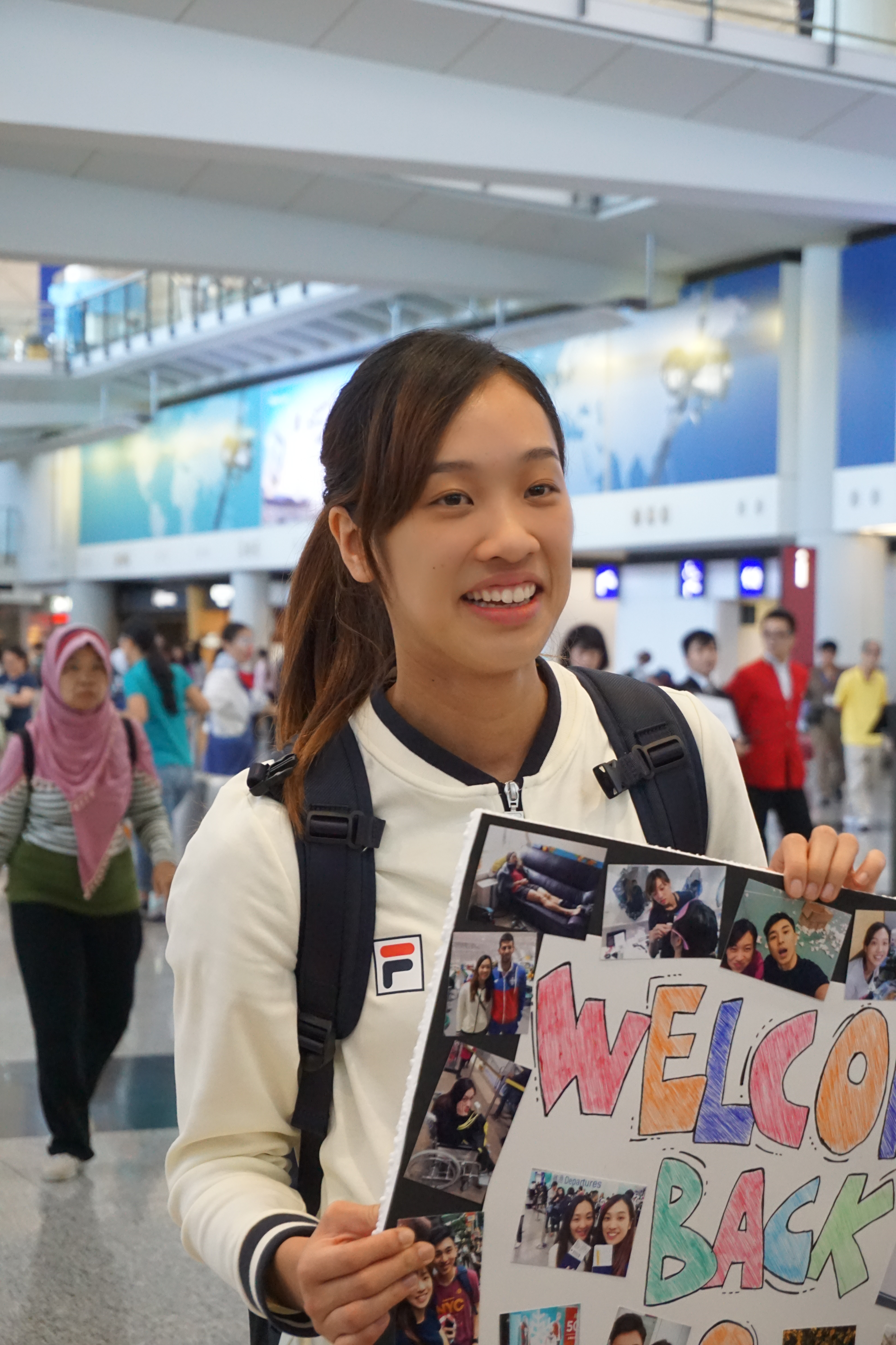 Isis Poon Lok-yan, Hong Kong.